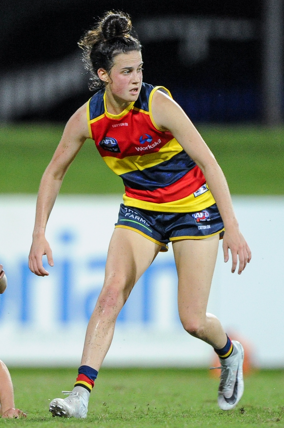 Eloise Jones in the AFL Women's preseason match between the Adelaide Football Club and Fremantle Football Club on 20 January 2018 at TIO Stadium